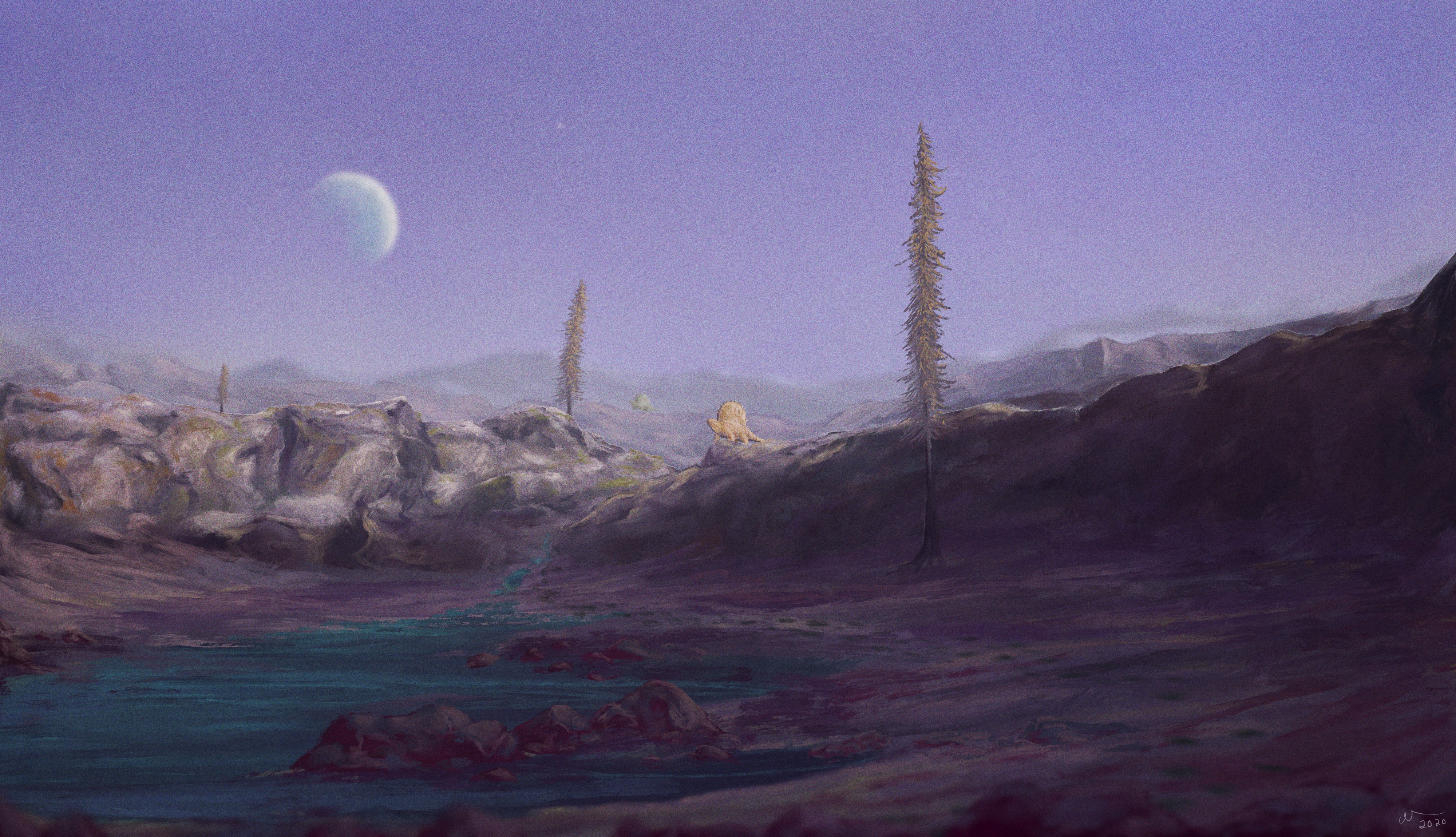 A scene from the Tambach Formation depicting Dimetrodon teutonis and the conifer Walchia.